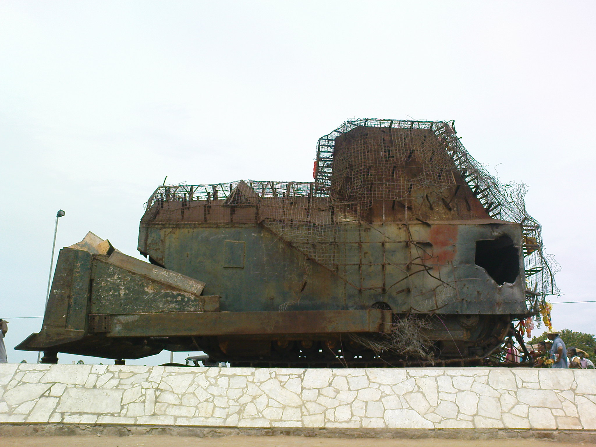 Corporal Gamini Kularatne Memorial in Elephant Pass සිංහල: කෝප්‍රල් ගාමිණි කුලරත්න ස්මාරකය - අලිමංකඩ